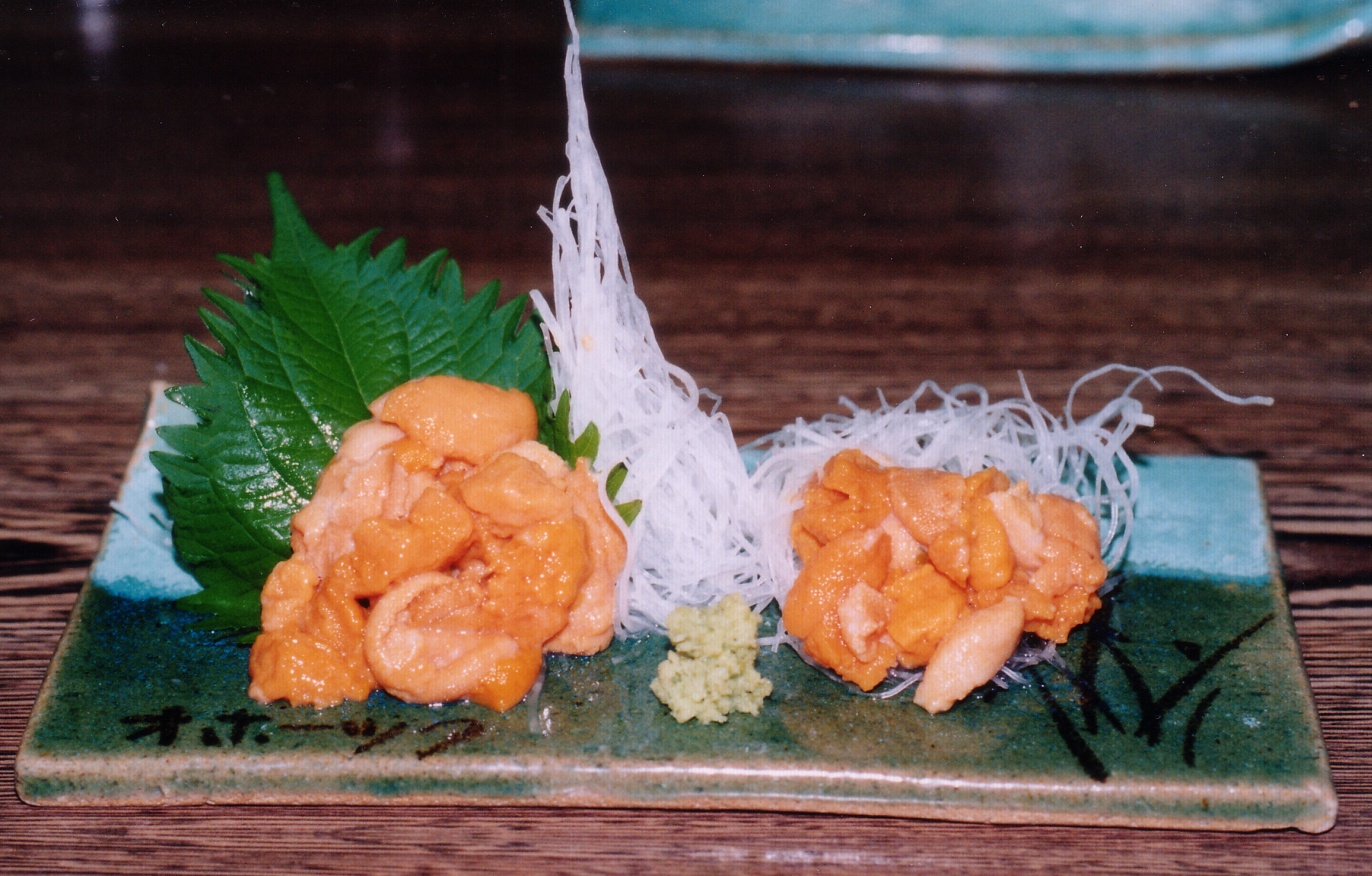 Sea urchin (uni) served Japanese style as sashimi, with a dab of wasabi